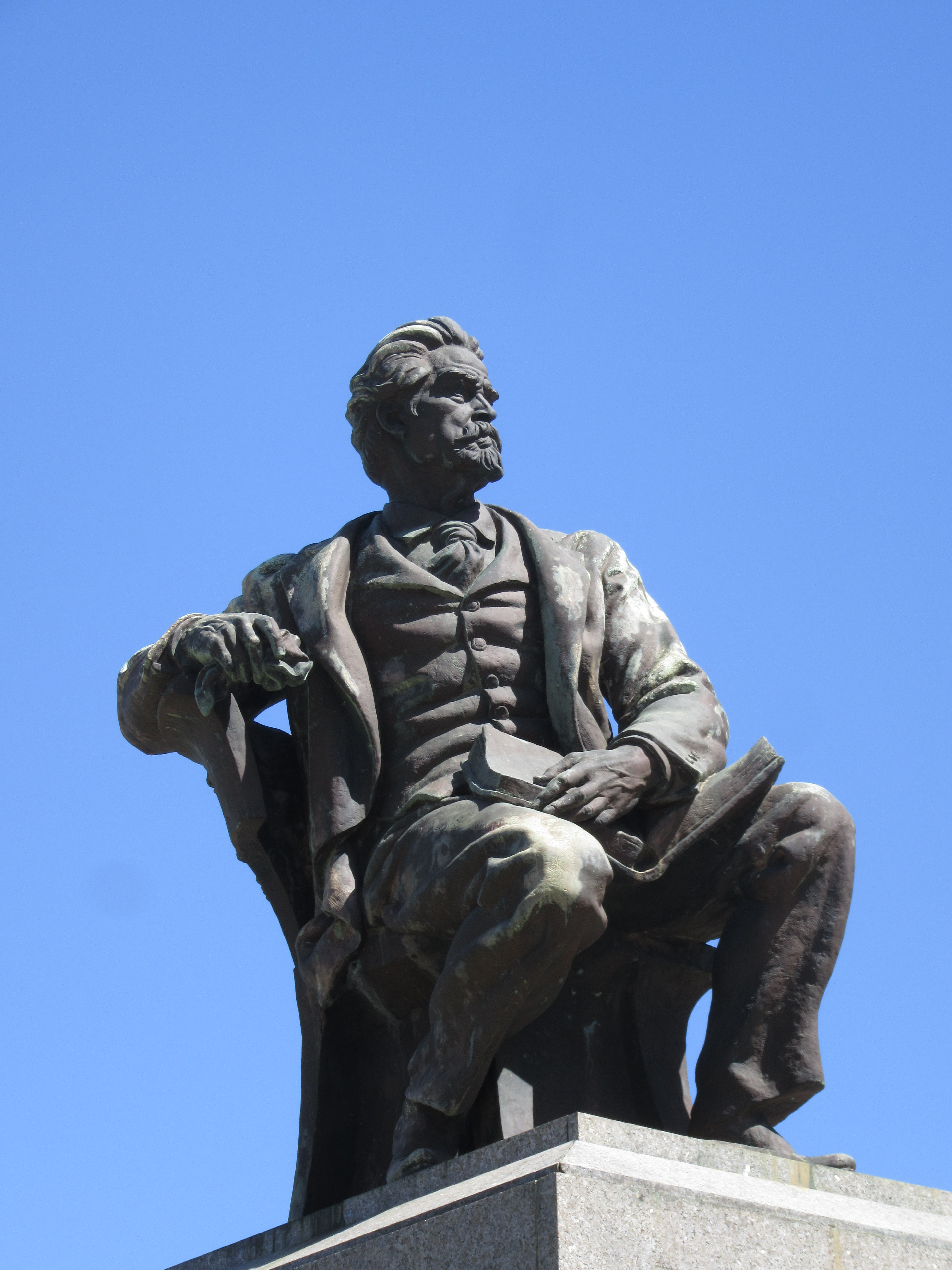 Montevideo